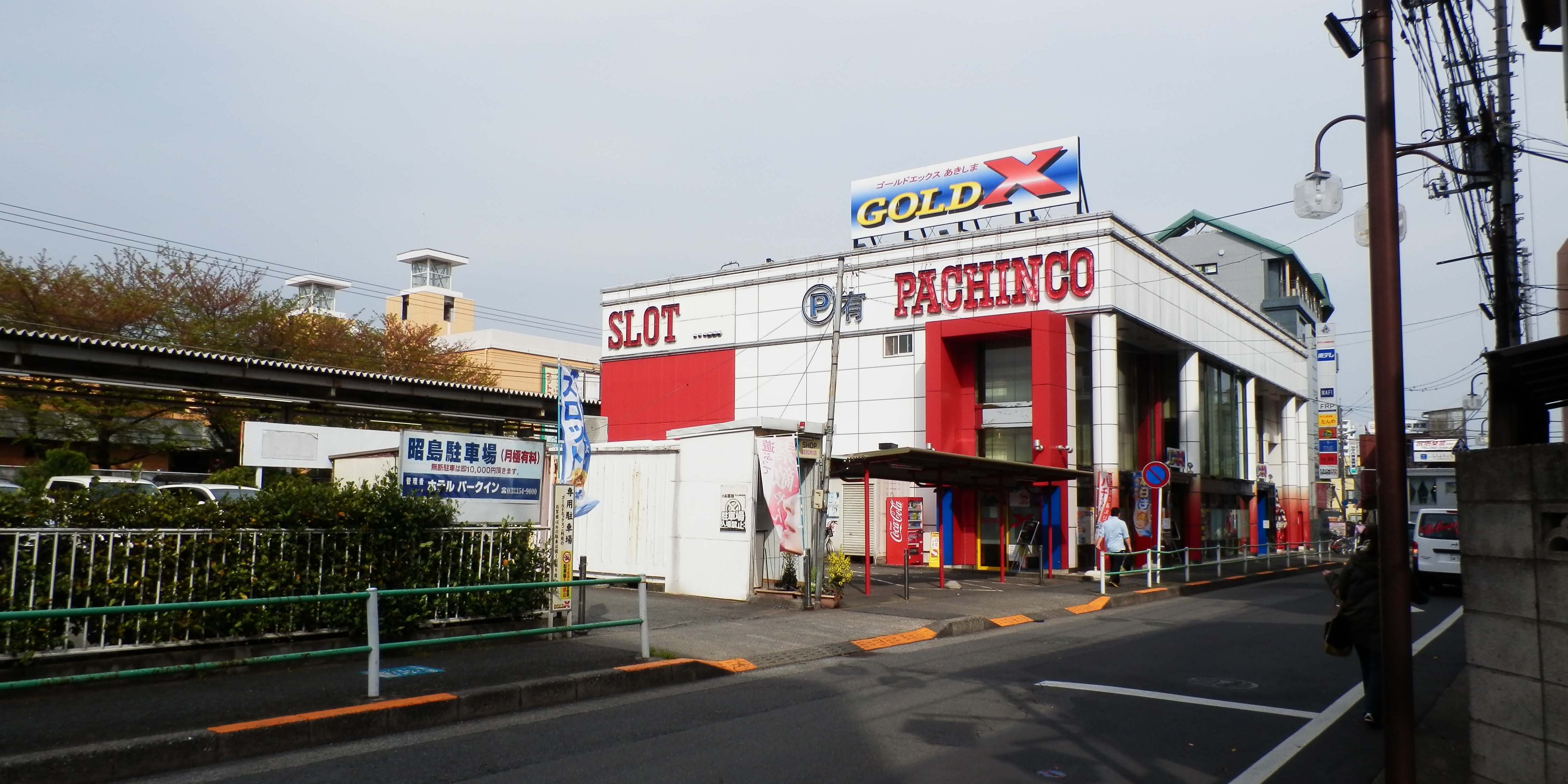 The pachinko parlor formarly known as Pachinko Gundam.